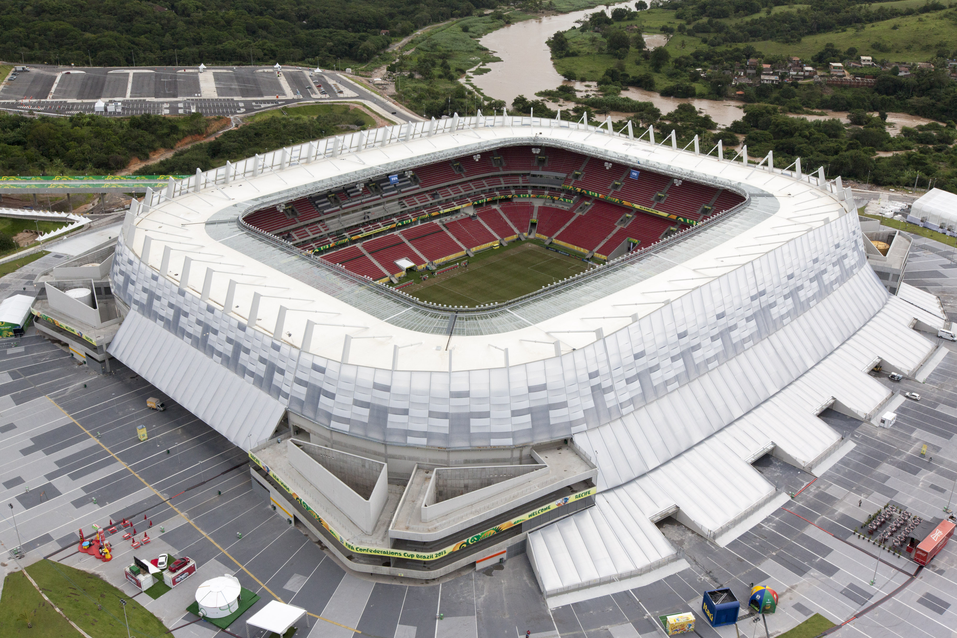 Itaipava Pernambuco Arena on June, 2013